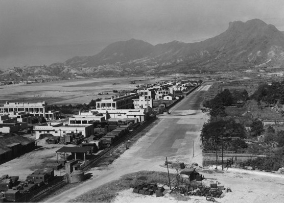 This image is a view of Kwun Tong Road, Hong Kong which is taken in 1945. There are three reasons show that the image is taken at that time. 1. The Title of the Photo on Facebook claimed that. 2. There is a villa at the right hand side of the image, which is the SJACPS campus now but it was established in 1958. 3. At the Lower Left-Hand Corner, it indicated some tanks with a star sign which represent the Allies of World War II. [1] 中文（香港）: 這照片是1945年指攝的香港觀塘道。 以下三個理由支持這照片是1945年拍攝︰ 一.Facebook 相片主題宣稱是1945年拍攝。 二.相片中右邊為一座別墅，即現時聖若瑟英文小學所在，而該校是於1958年創辦。 三.在左下角顯示幾架在當時的英國皇家空軍基地內的坦克，坦克上有第二次世界大戰盟軍「星」符號。[2]